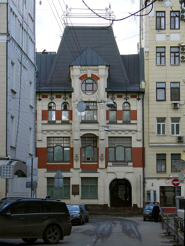 Levenson Printshop, by Fyodor Schechtel, Trekhprudny Lane, Moscow, Russia. Built in 1900, no FoP limits for this picture